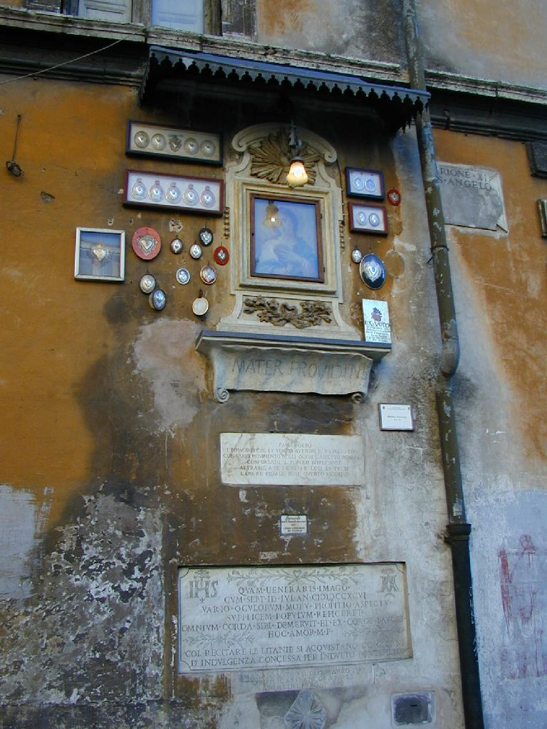 Rome, road with dark Shops: Madonna of Providence